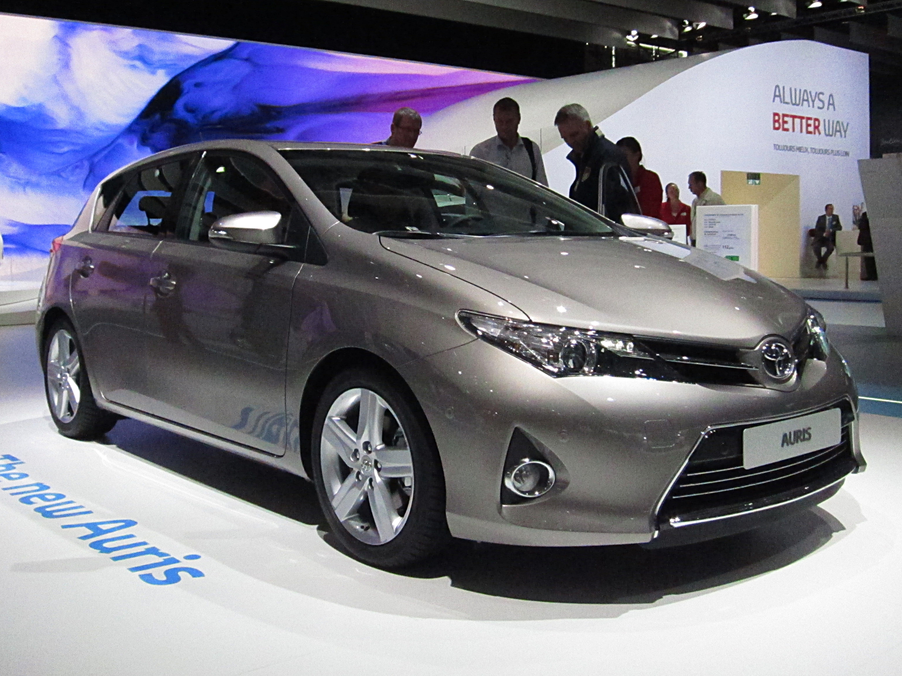 Toyota Auris II at Mondial de l'Automobile Paris 2012